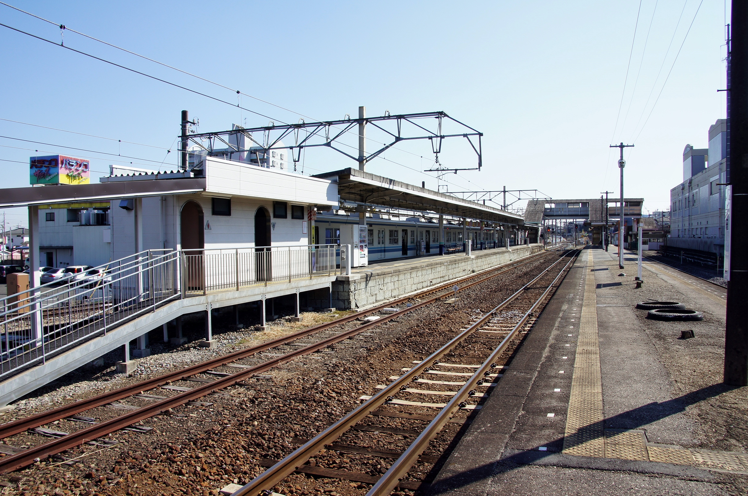 View from the north end of the JR East (Hachiko Line) platform at Ogose Station with the Tobu Ogose Line platform on the left and the former toilet block (removed in 2013 to allow for platform lengthening)